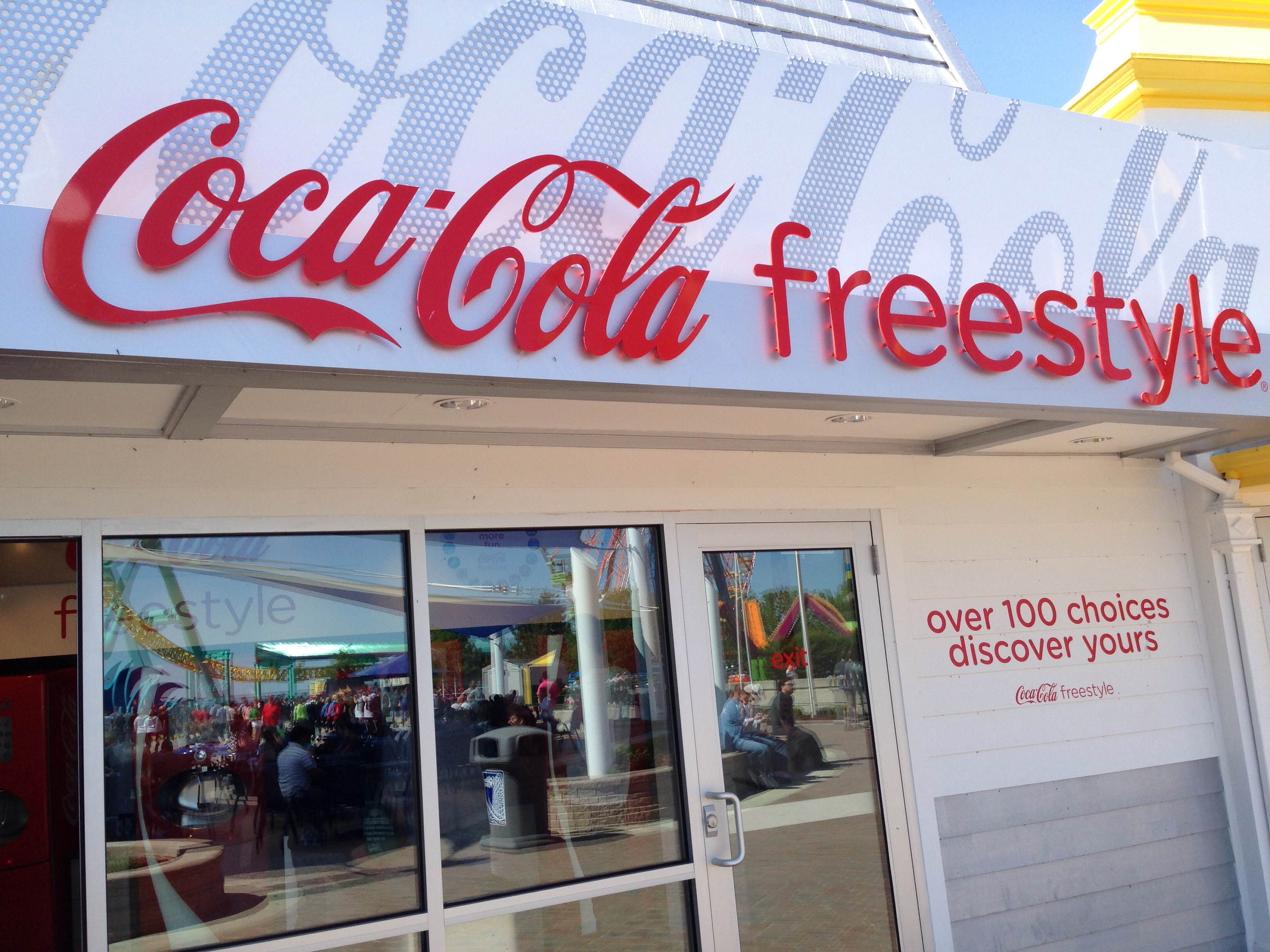 Cedar Point and Oberlin's Commencement